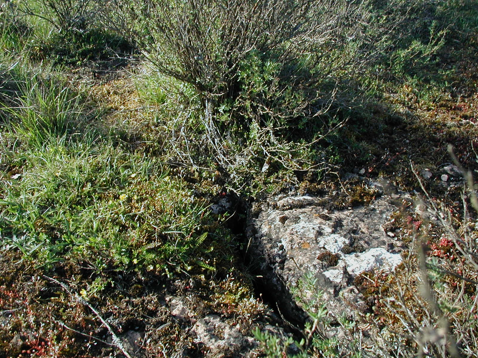 Alvar biotope on Öland. You se a karst-fissure and around it Potentilla fruticosa, Filipendula vulgaris and Sedum album.